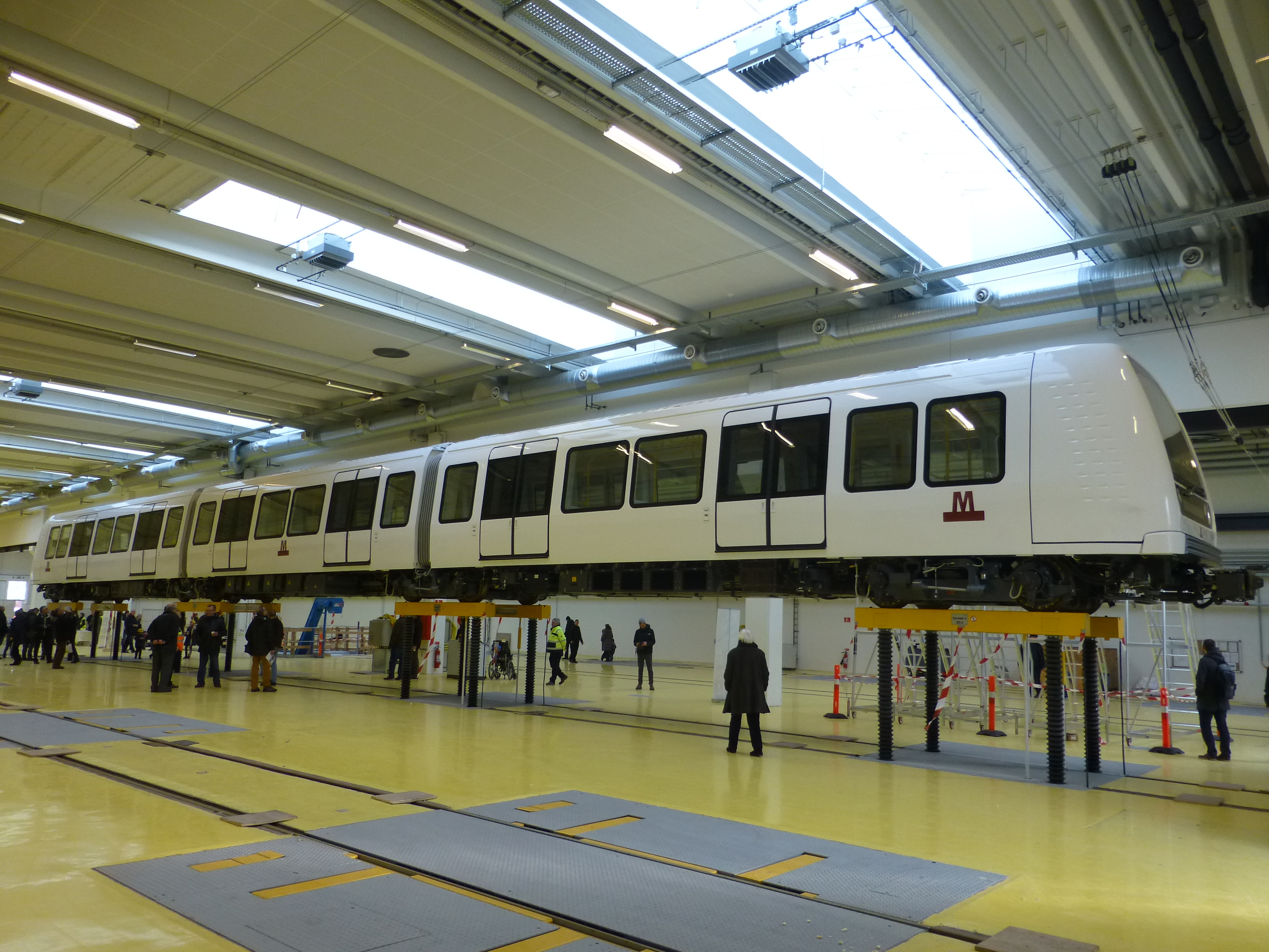 Presentation of new Copenhagen metro train for the City Circle Line (Cityringen) which will open in 2019.